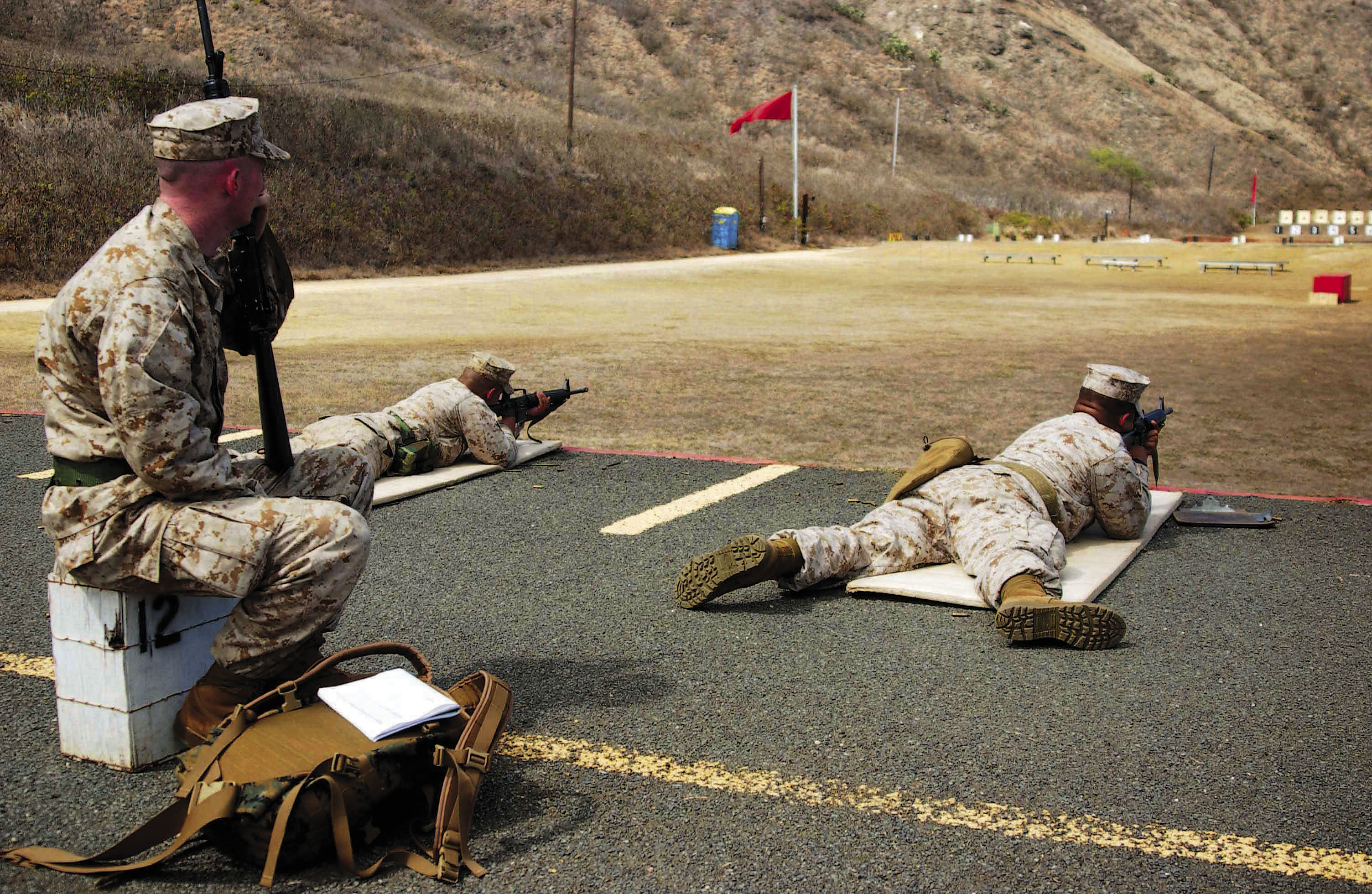 Rifle range shooters and boaters could benefit from a new warning system for anyone caught in the line of fire. Three new Long Range Acoustic Devices, which send automatic warnings to anyone near the danger zones, are planned to come online this summer at Marine Corps Base Hawaii. Two LRADs will be used at Kaneohe Bay and another will be in use at Puuloa Rife Range in Ewa Beach.